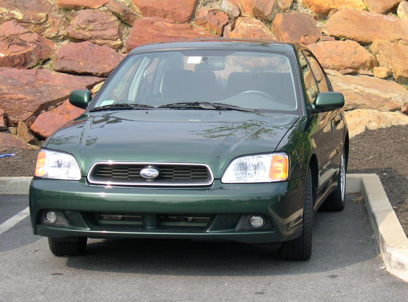 2004 Subaru Legacy sedan Source: Photo by User:Sfoskett